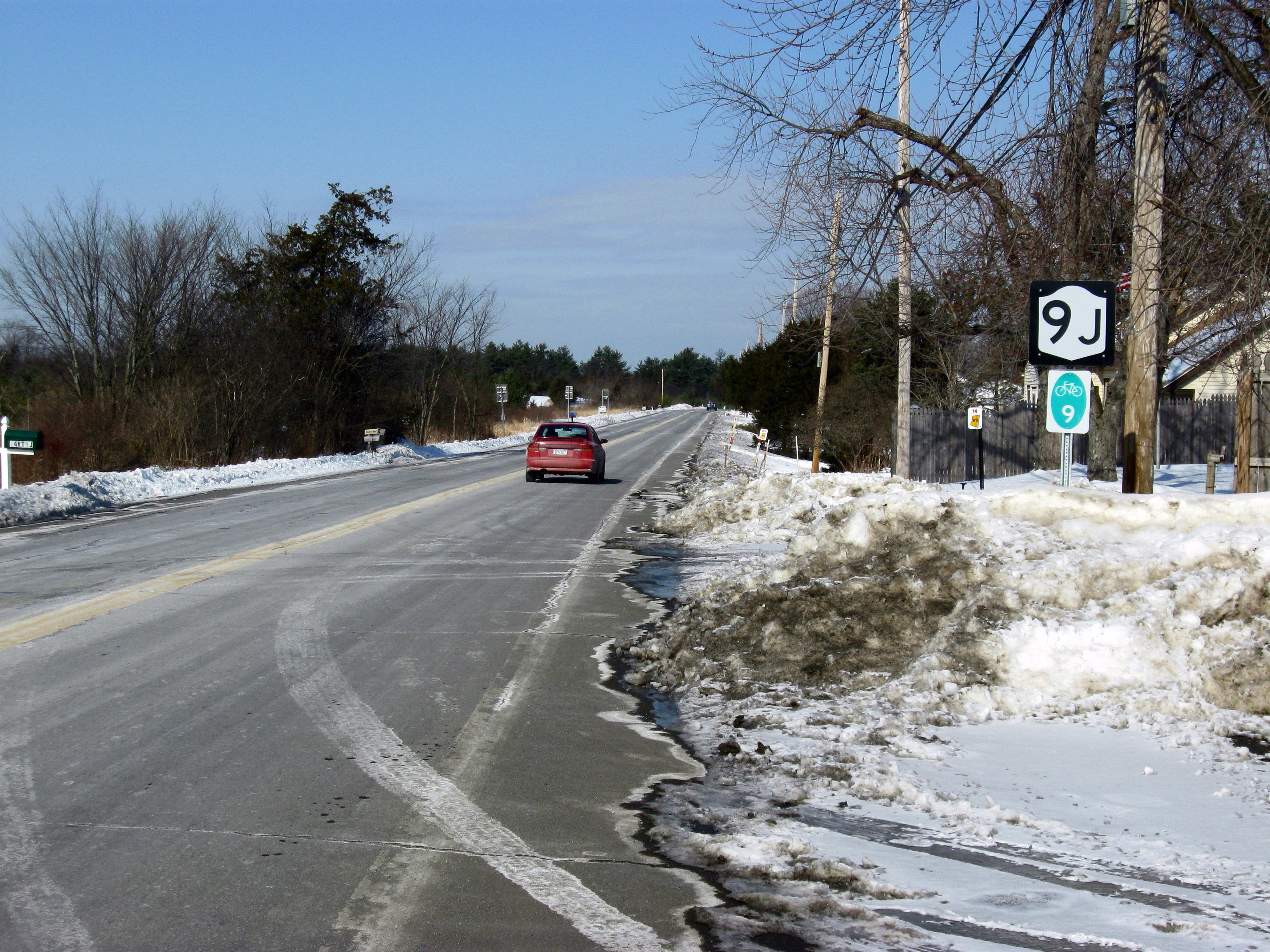 The southern beginning of New York State Route 9J at US 9 in Stockport, New York, which is concurrent with part of New York State Bicycle Route 9.